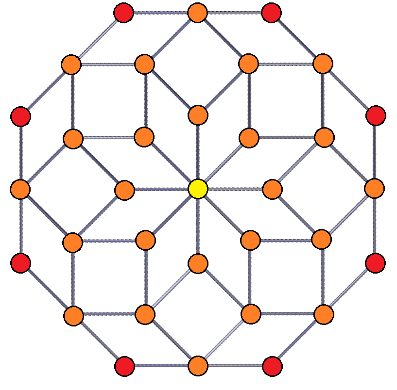 Duoprism orthogonal projection